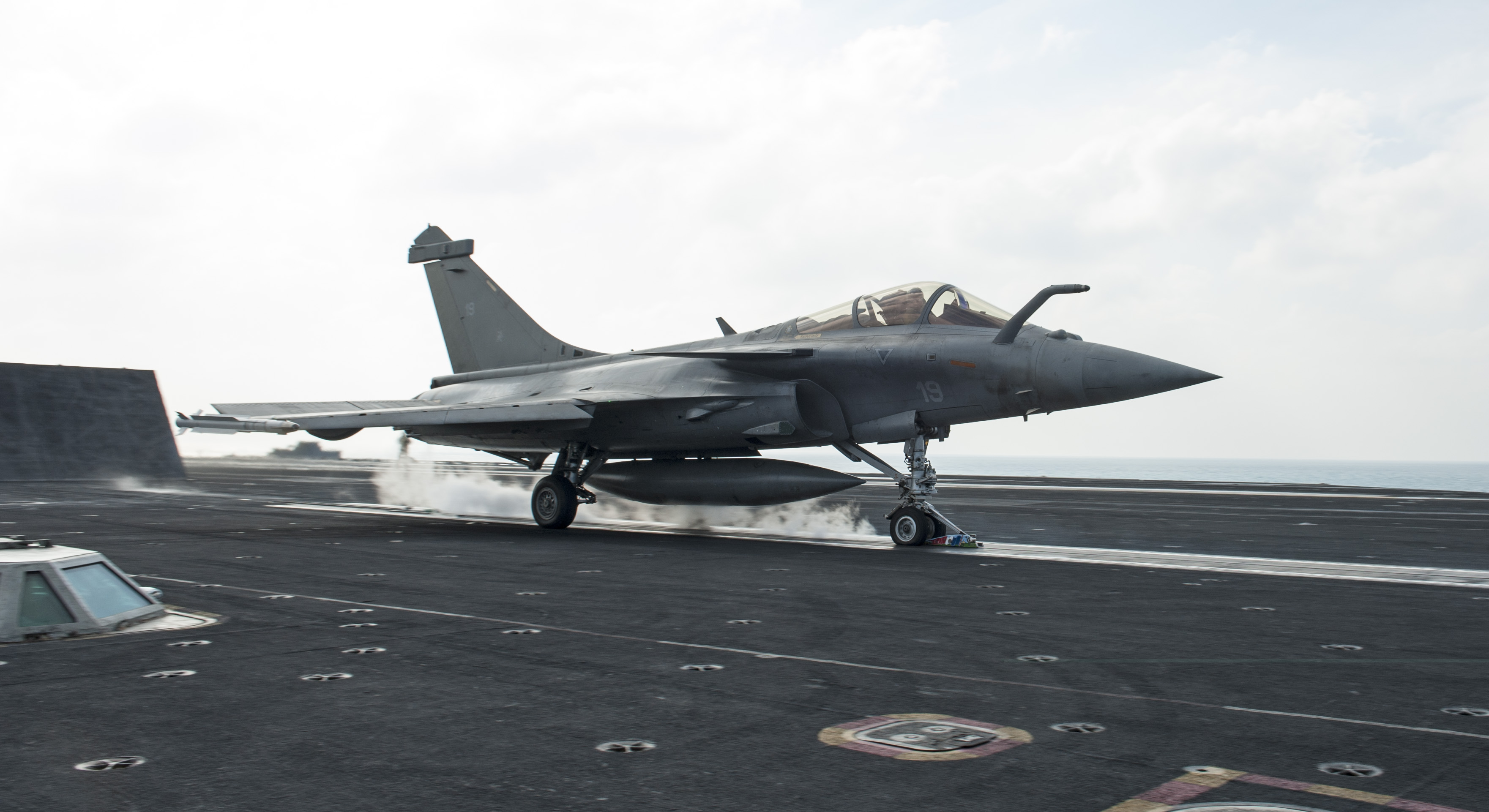 A French Aéronavale Dassault Rafale M assigned to Flottille 12F aboard the French aircraft carrier Charles de Gaulle (R91), is launched from the U.S. Navy aircraft carrier USS Harry S. Truman (CVN-75) during carrier qualification integration. Harry S. Truman was conducting operations with units assigned to French Task Force 473.